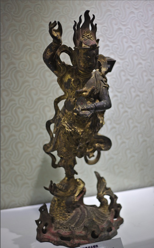 A bronze statue of Kui Xing, reportedly from the late Ming Dynasty and recovered from a temple in Guangnan county, Wenshan prefecture, Yunnan, China in the early 1950s.